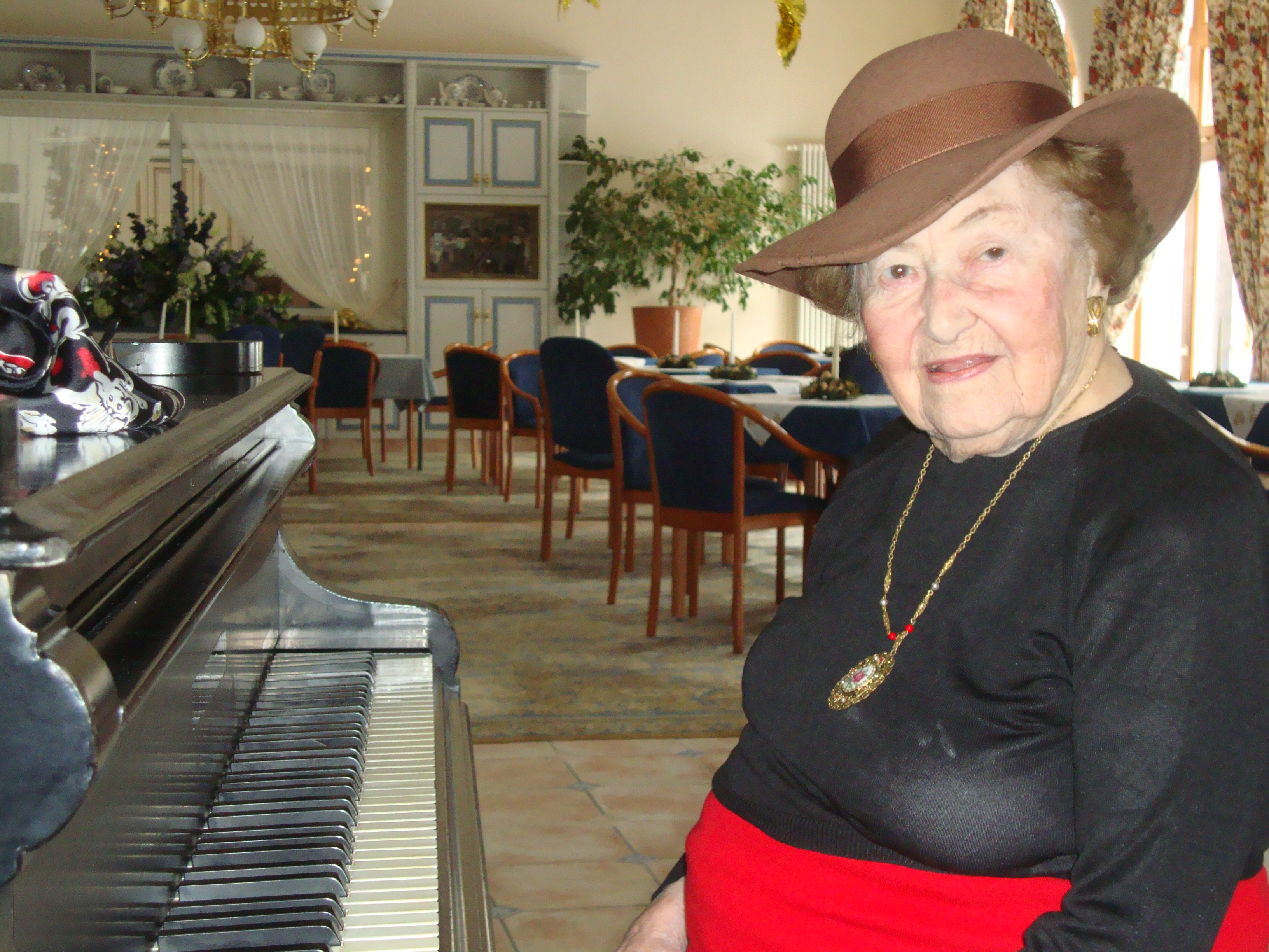 Draga Matkovic aged 103 years